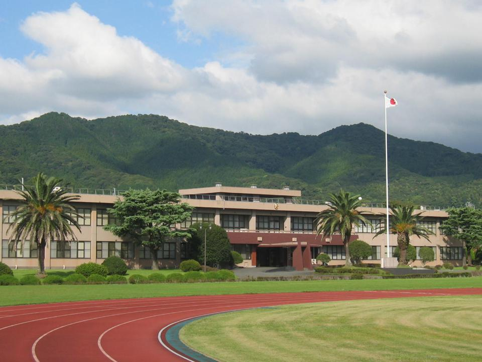 Officer Candidate School,JGSDF